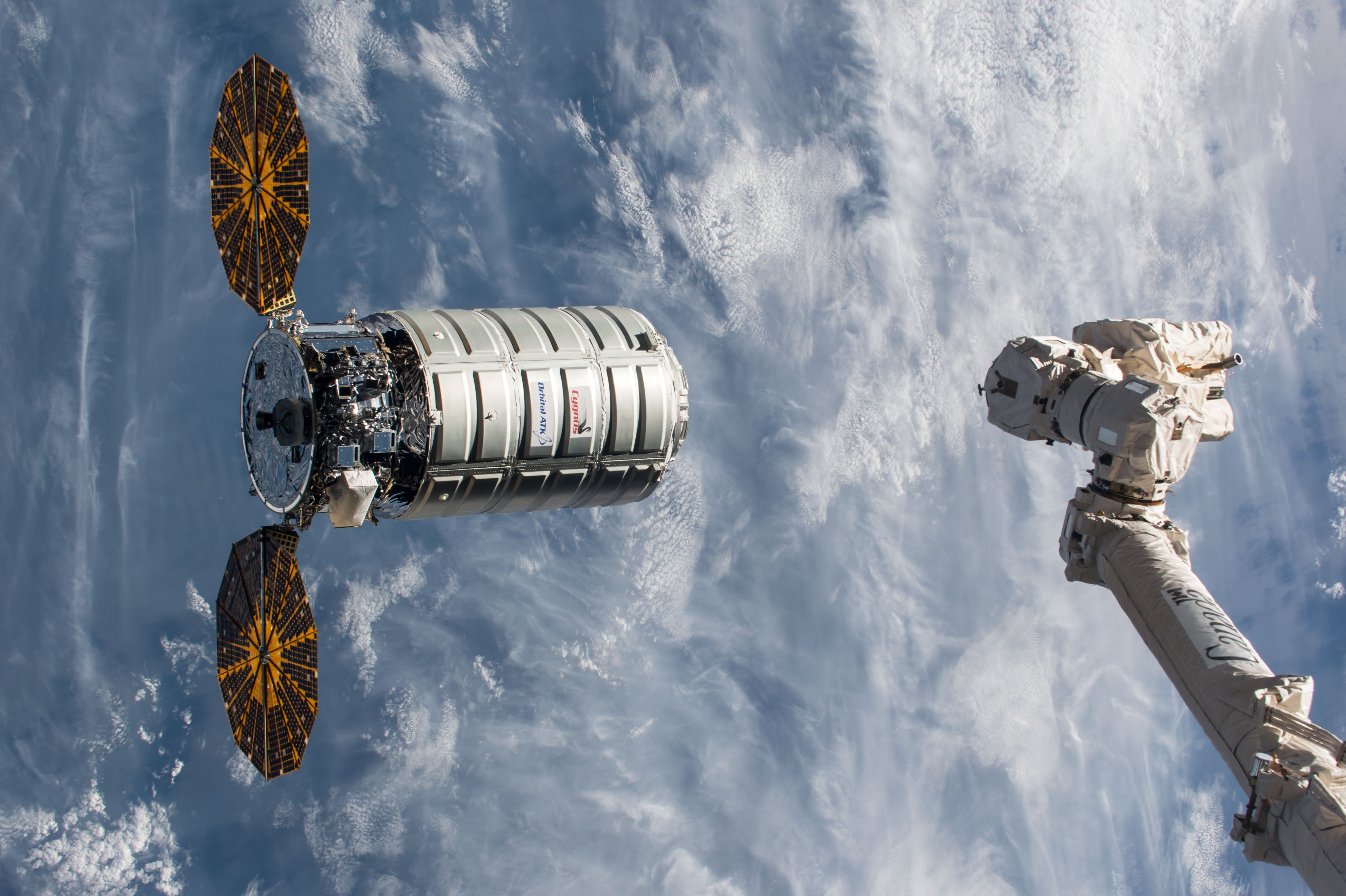 The Cygnus spacecraft is pictured approaching its capture point before the Canadarm2 robotic arm, controlled by astronauts Paolo Nespoli and Randy Bresnik, grappled it on Nov. 14, 2017.